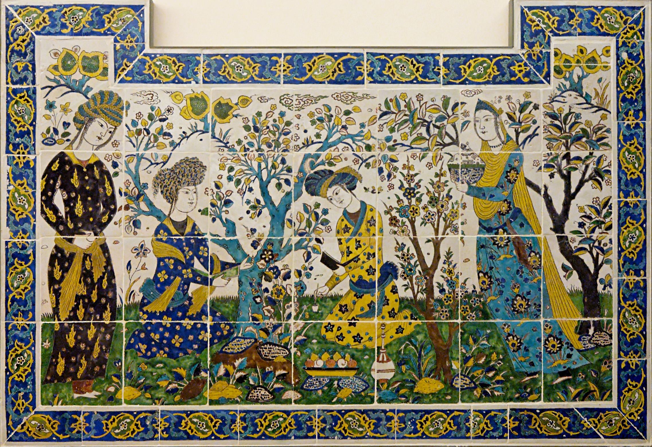 Wall-panel: entertainment in a garden. Fritware with cuerda seca decoration. Iran, 17th century. May come from Chehel Sotoun, built by Shah 'Abbas II in Isfahan.